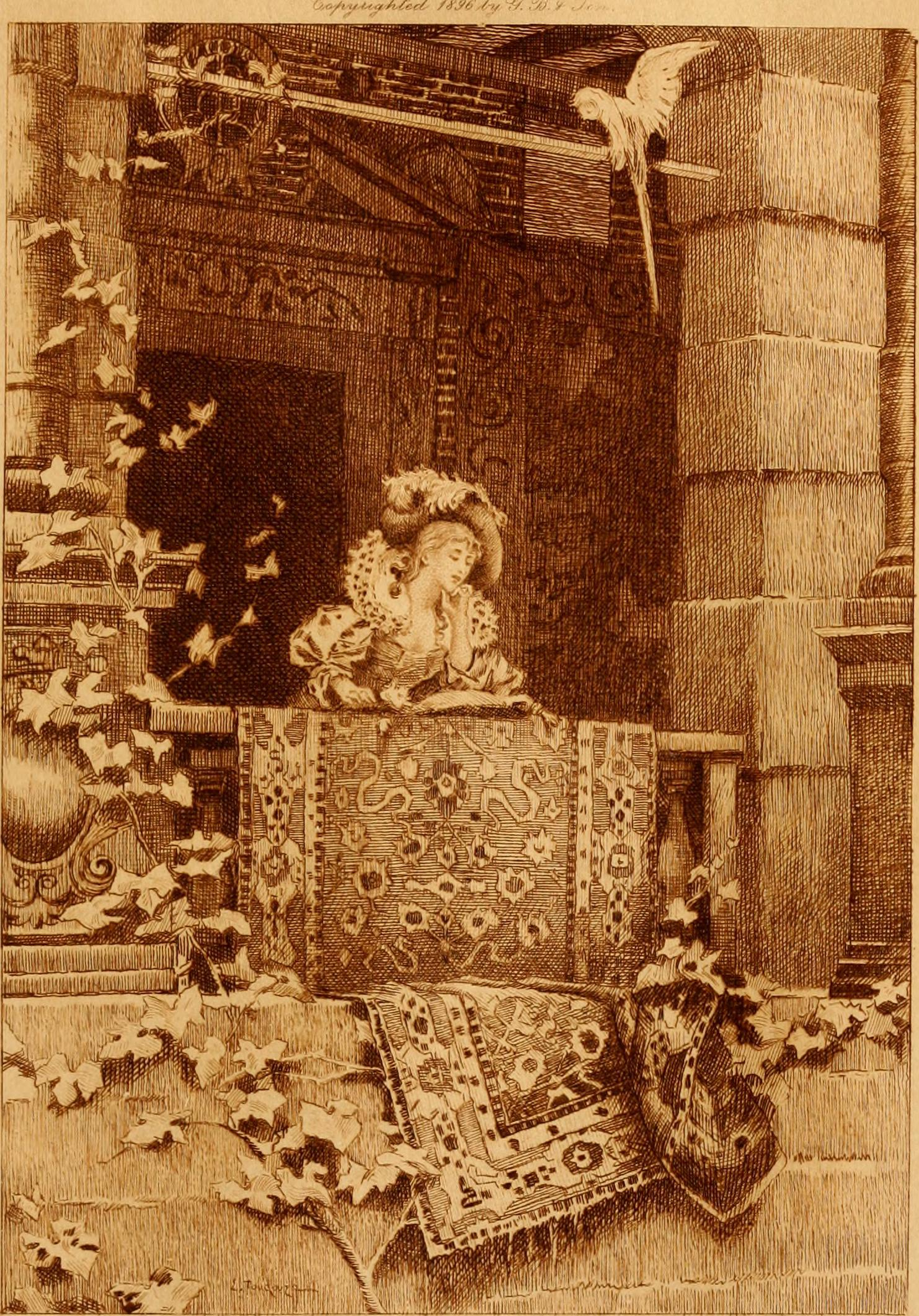 Title: Mademoiselle de Maupin, v. 2 Year: 1897 (1890s) Authors: Gautier, Theophile Subjects: Bibliotheque des chefs-d'oeuvre du roman contemporain: Realists (and) Romancists French fiction--19th century--Translations into English Limited Editions French fiction Publisher: Philadelpha: Printed for subscribers only by G. Barrie Please note that these images are extracted from scanned page images that may have been digitally enhanced for readability - coloration and appearance of these illustrations may not perfectly resemble the original work.